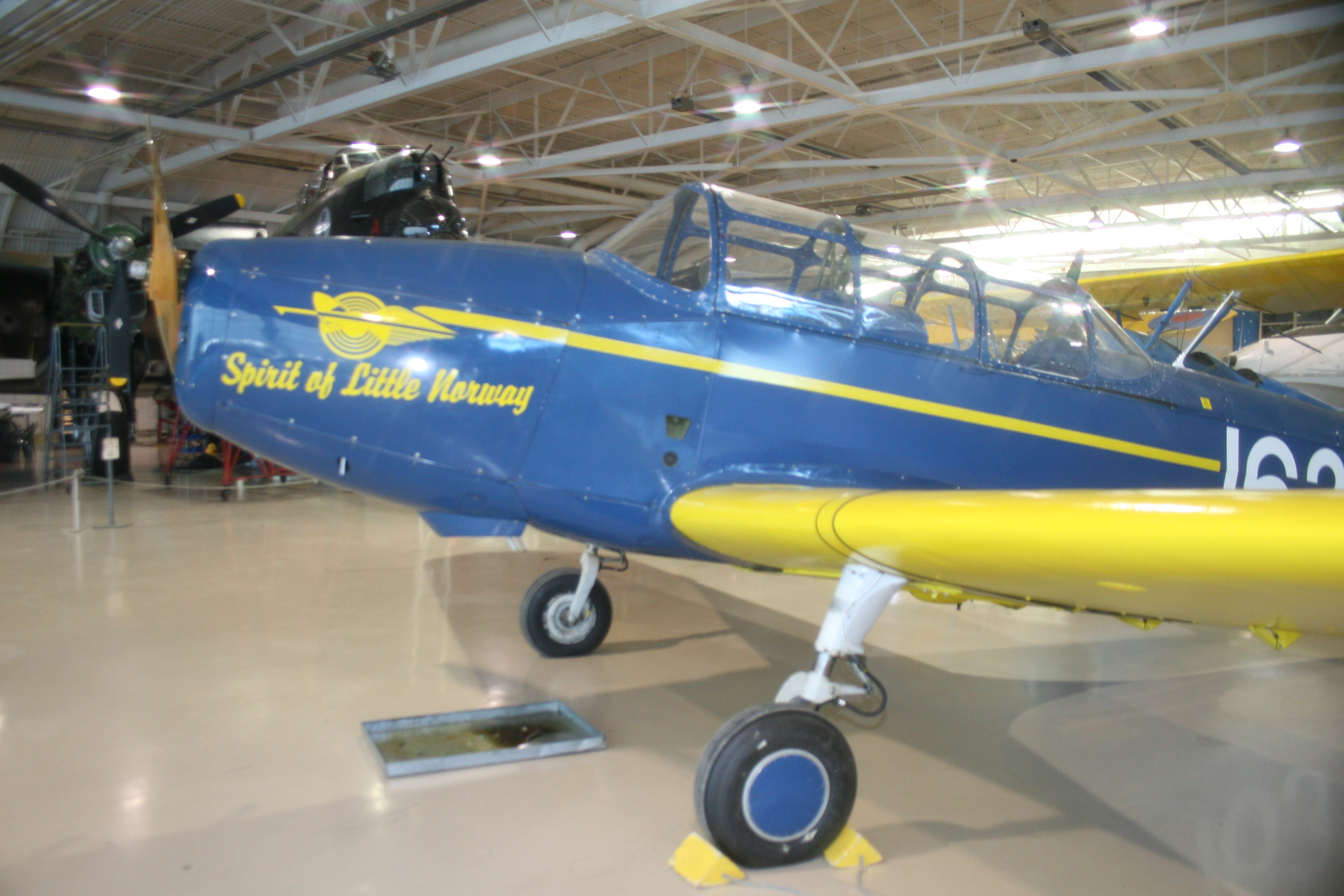 Fairchild Cornell "Spirit of Little Norway" on display at the Canadian Warplane Heritage Museum